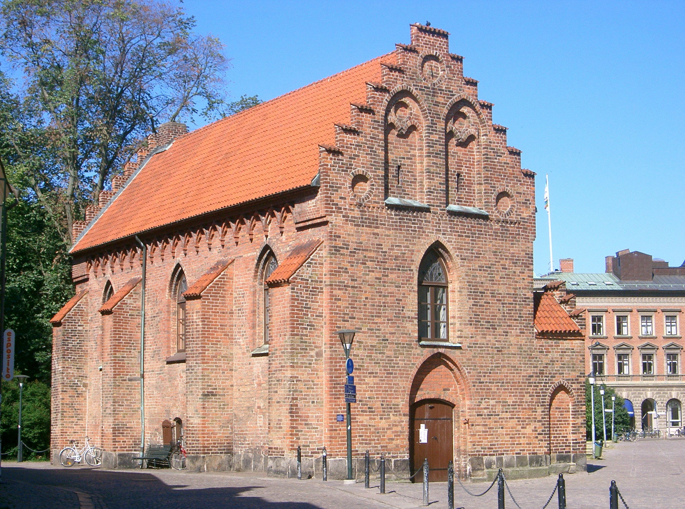 Lund, former library (15th century)